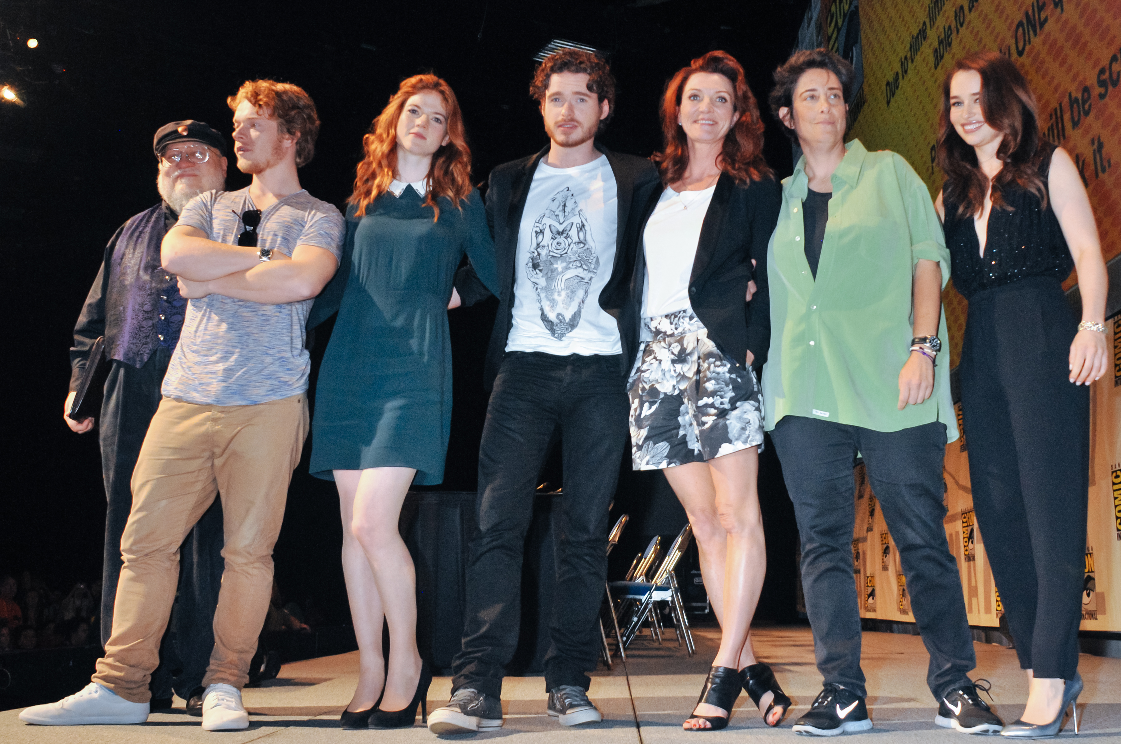 George R.R. Martin, Alfie Allen, Rose Leslie, Richard Madden, Michelle Fairley, Carolyn Strauss, Emilia Clarke.